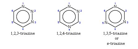 Structural formulae of the three triazine isomers, with ring numbering